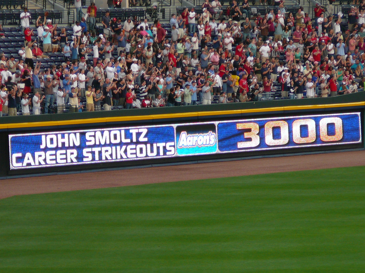 User:Chrisjnelson agreed to license this image of John_Smoltz_3000_strikeouts.jpg under a free attribution license. Any use of this image must be attributed; this means that Photo by :en:User:Chrisjnelson|Chris Nelson should be in the picture caption.